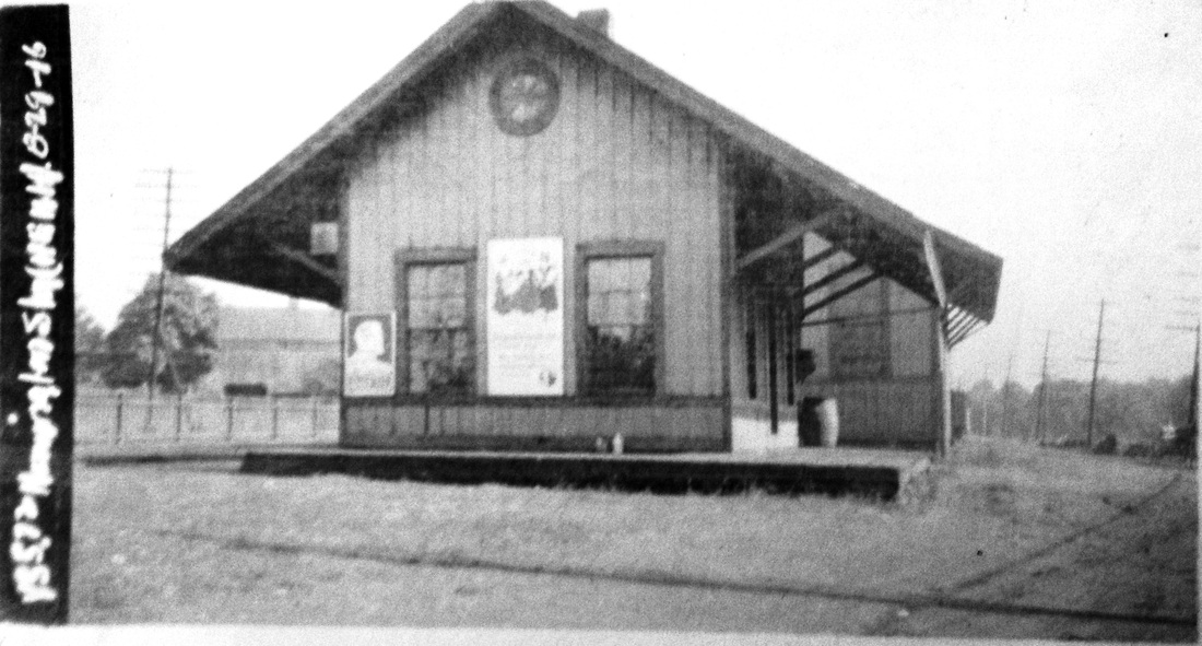 August 1916 valuation of the NYNH&H station at Newington